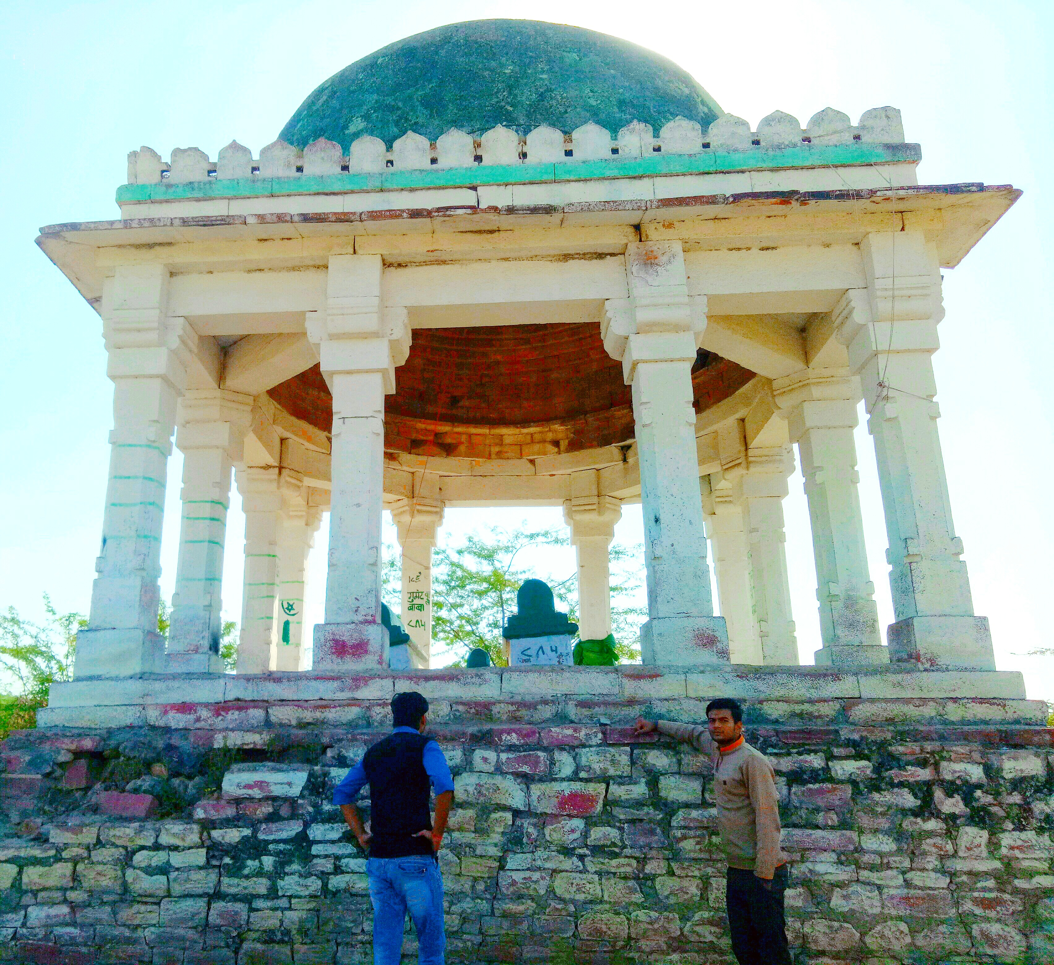 Barah Khamba Gumbat is a Ancient historical place at mid of Jalsen Talab in Hindaun City